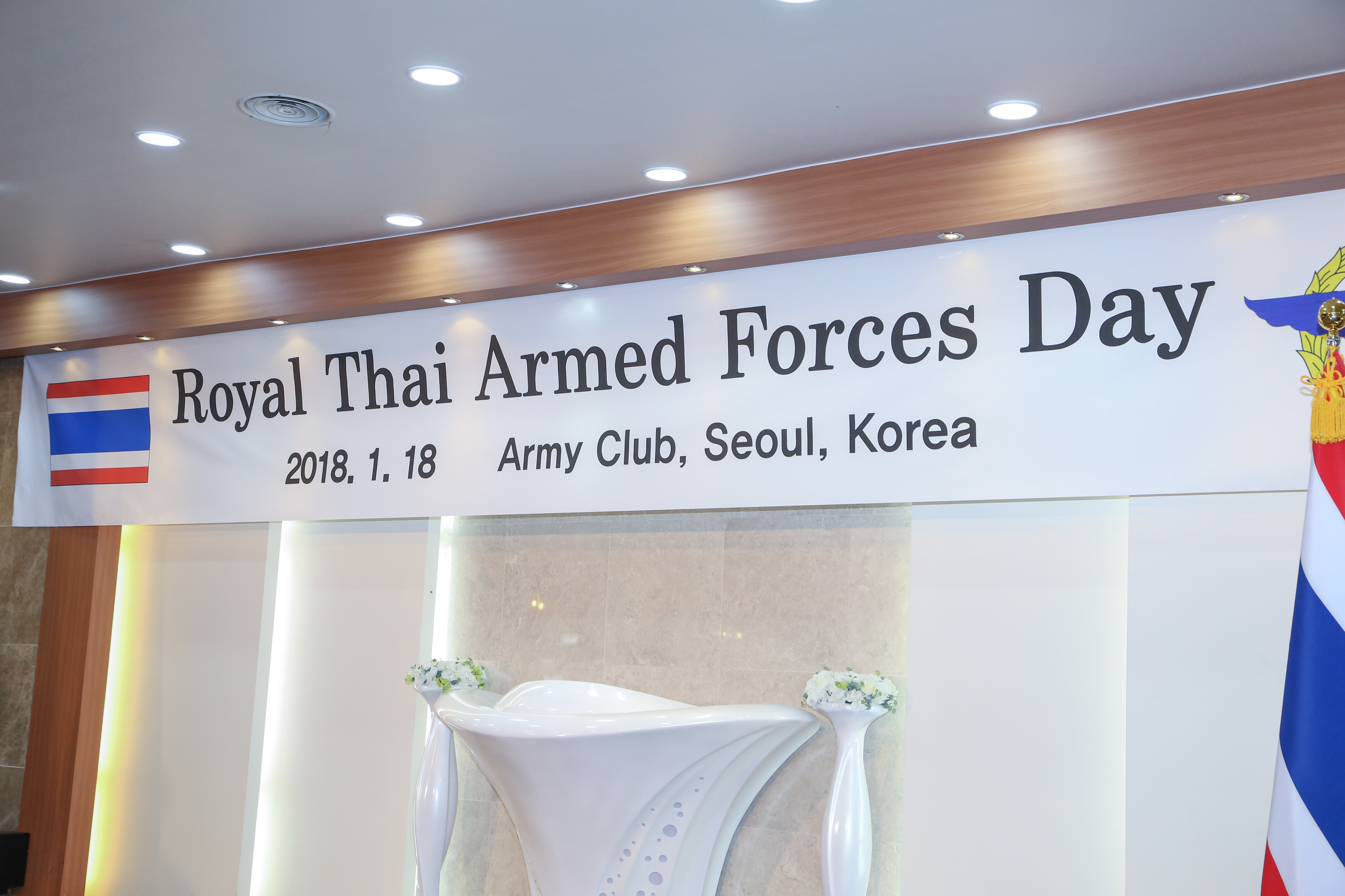 Royal Thai Armed Forces Day 2018 in Seoul, South Korea